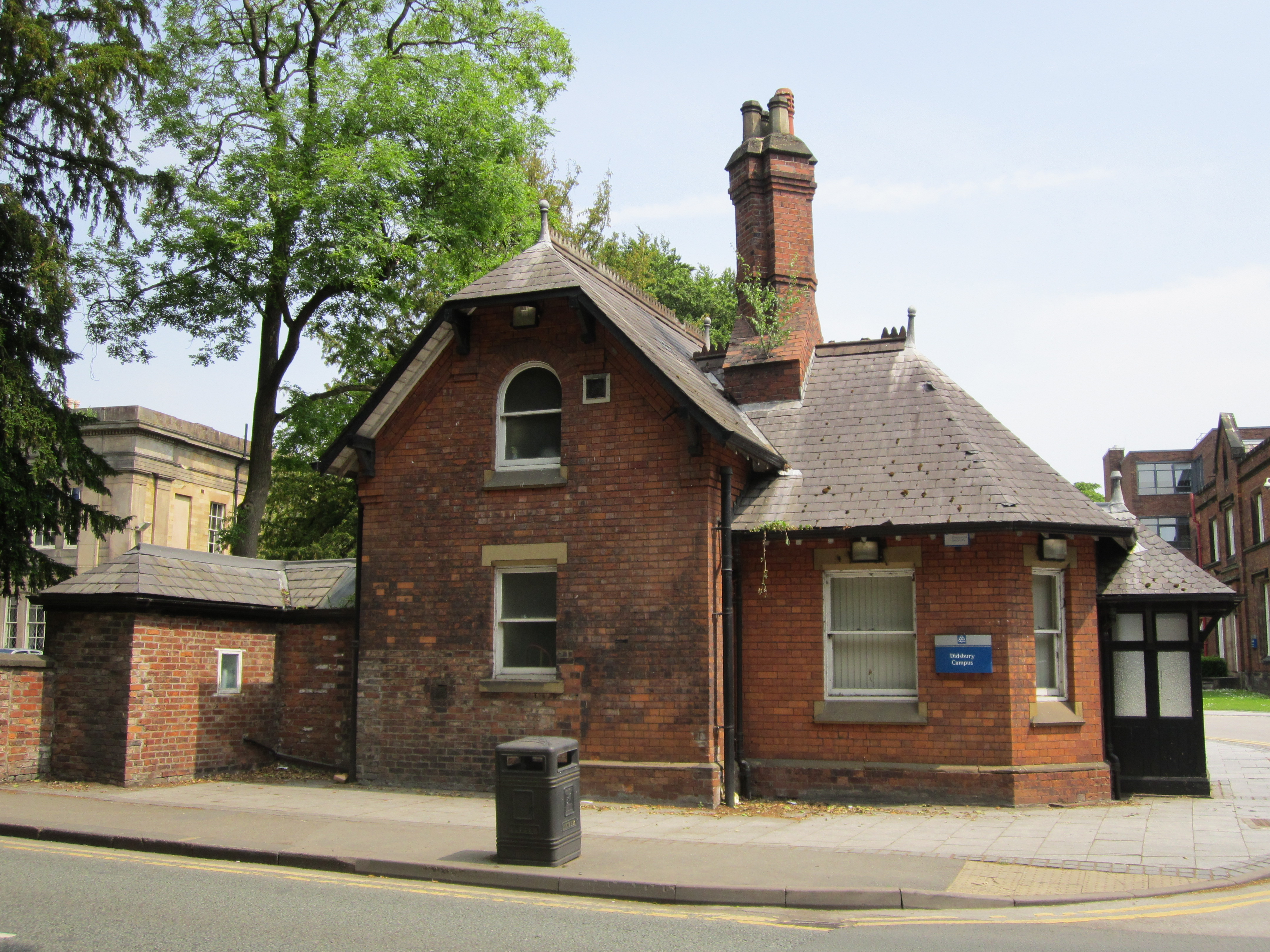 Photo taken at Didsbury Campus, part of Manchester Metropolitan University, England.